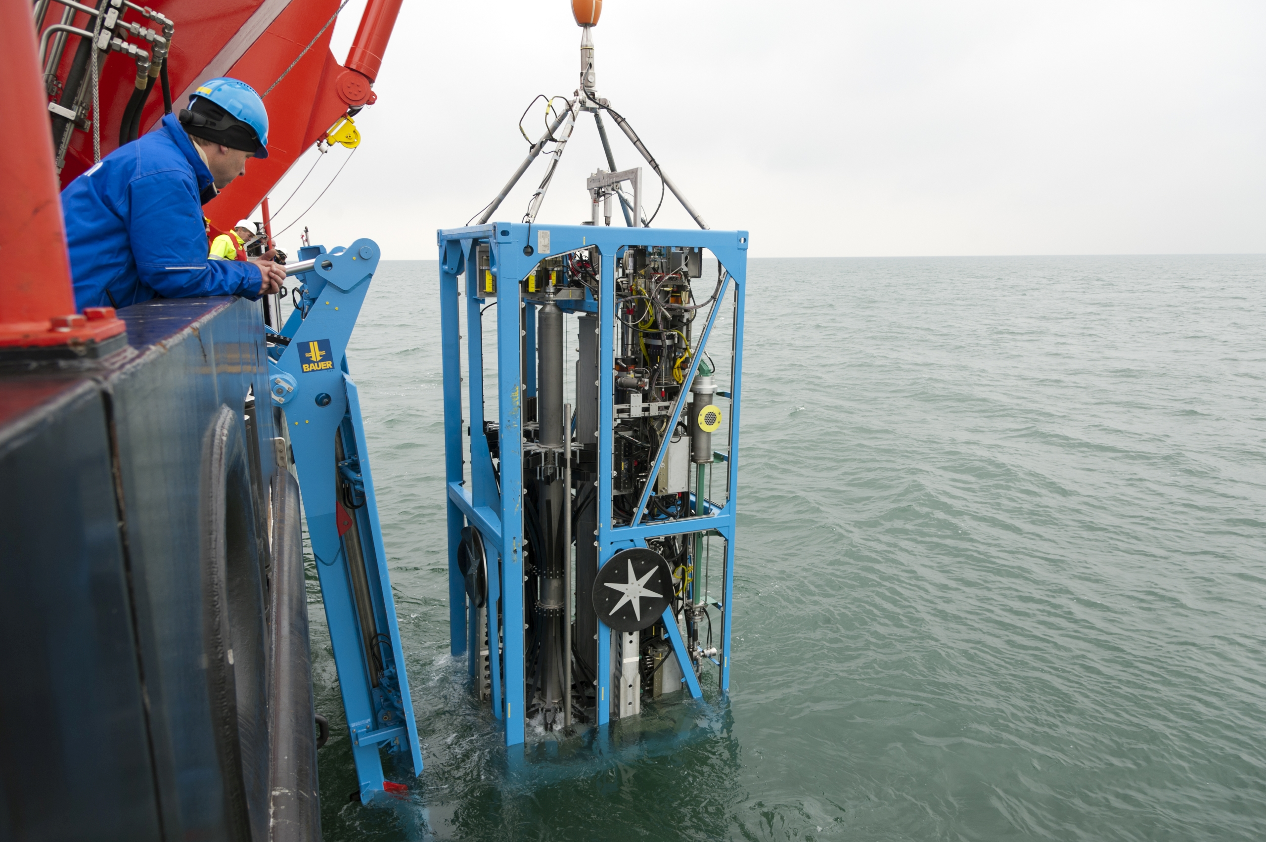 The sea-floor drill rig MARUM-ME­BO200 is lowered into the wa­ter from the re­search ship SONNE.